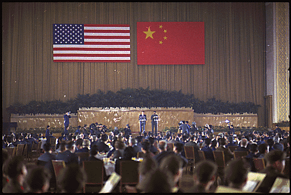 Richard Nixon and Zhou Enlai speaking at a banquet, during Nixon's visit to China in 1972.